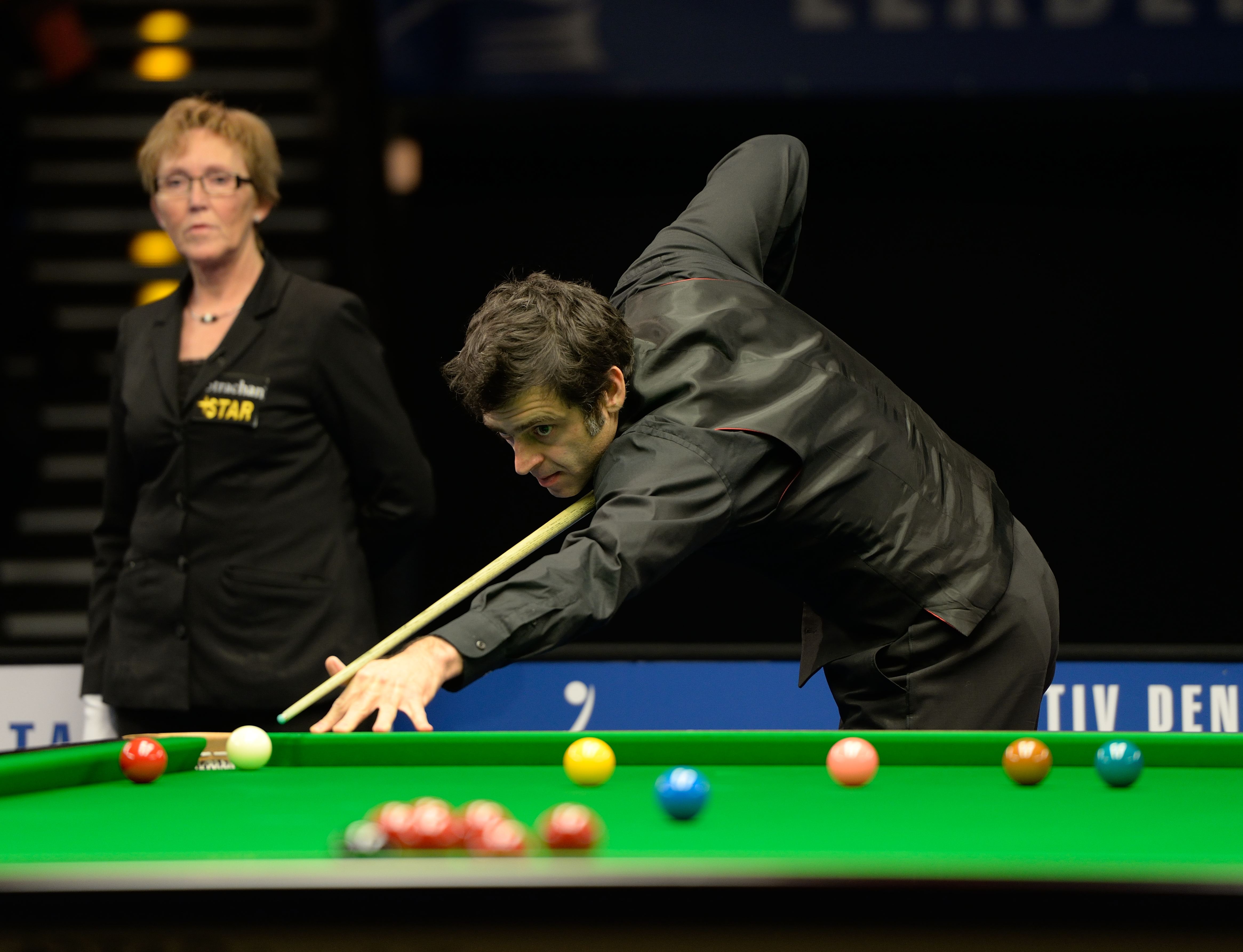 Picture taken in Berlin during the Snooker German Masters in 2015. Ronnie O’Sullivan, Hilde Moens.